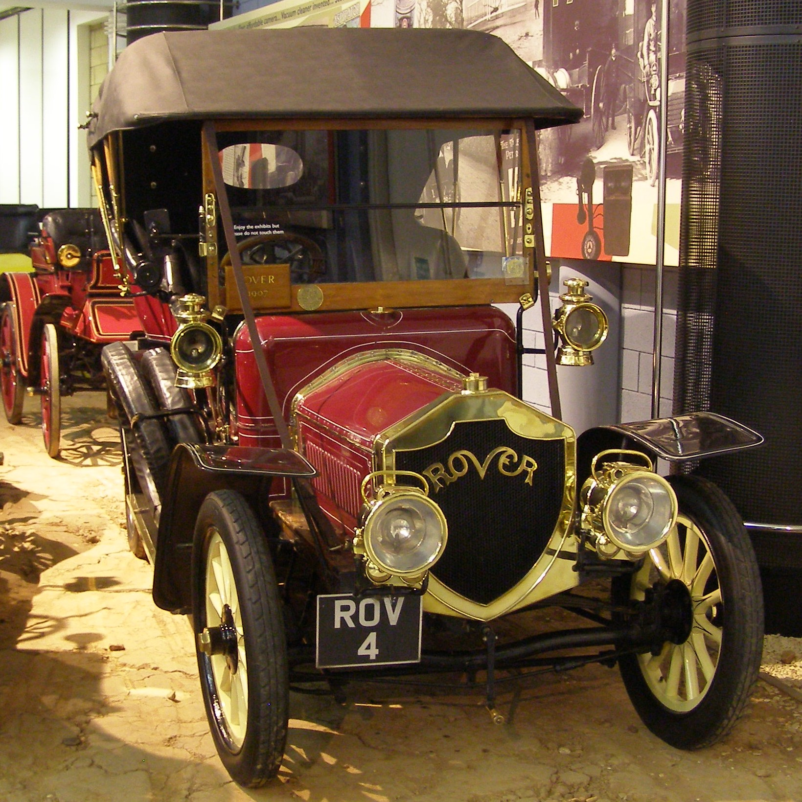 A 1907 Rover 20hp Tourer (ROV4) at the Heritage Motor Centre, Gaydon, England